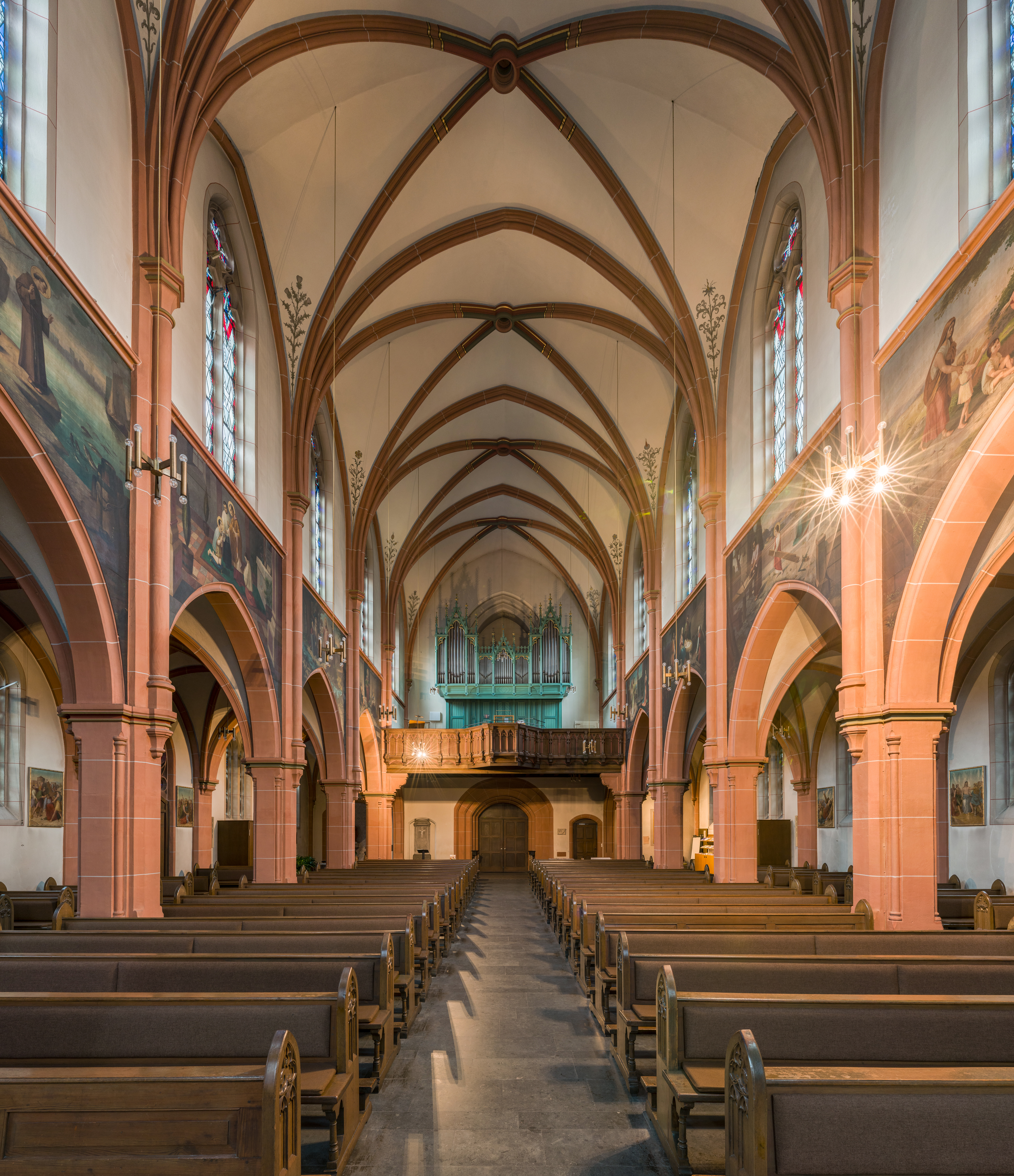 A view of the nave and organ of the Antoniuskirche, Frankfurt-Rödelheim